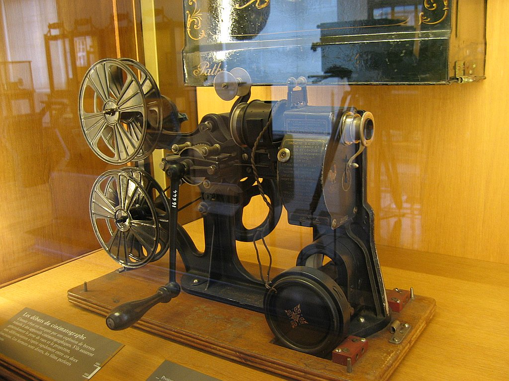 Pathé-Kok movie projector (1912) - CNAM